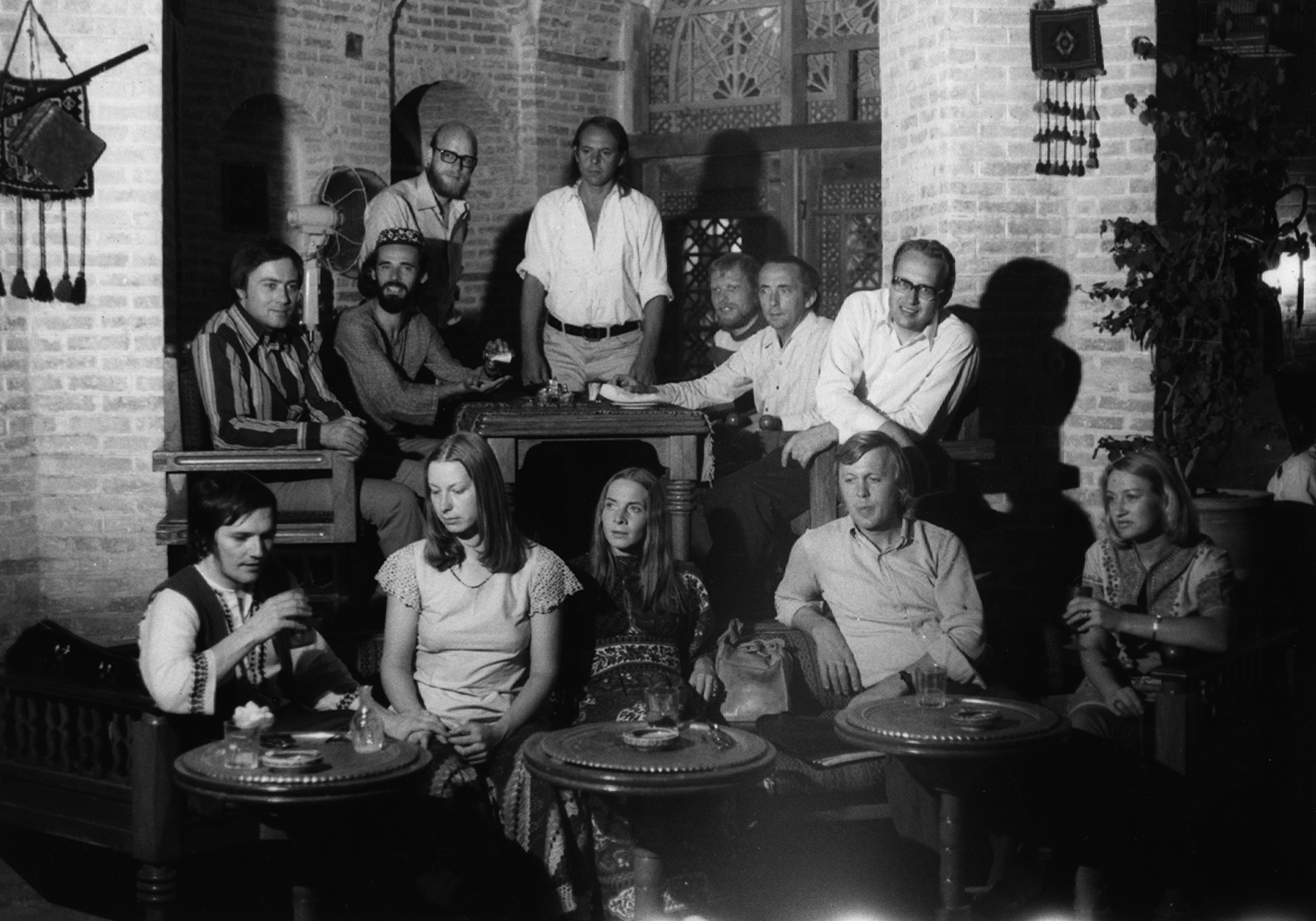 Shiraz-Festival 1972, tea house Seraye Moshir, Shiraz. Last row standing: Volker Müller, Karlheinz Stockhausen. Last row sitting: Karl O. Barkey, Hans-Aldrich Billig, Wolfgang Lüttgen, Günther Engels, Christoph Caskel. First row: Péter Eötvös, Dagmar von Biel, Gaby Rodens, Wolfgang Fromme, Helga Hamm-Albrecht.